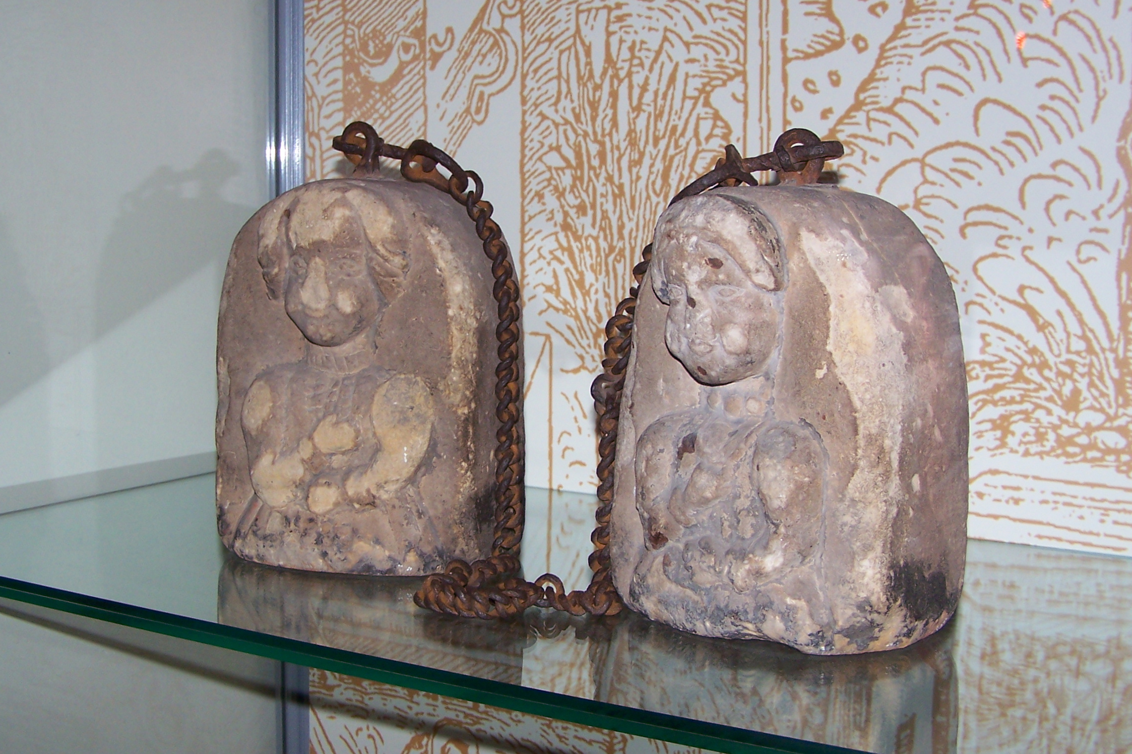 Stones of shame. Torture museum in Lubuska Land Museum in Zielona Góra.